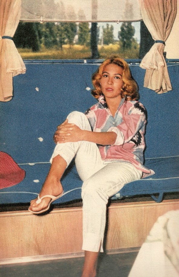 Italian actress Franca Bettoja